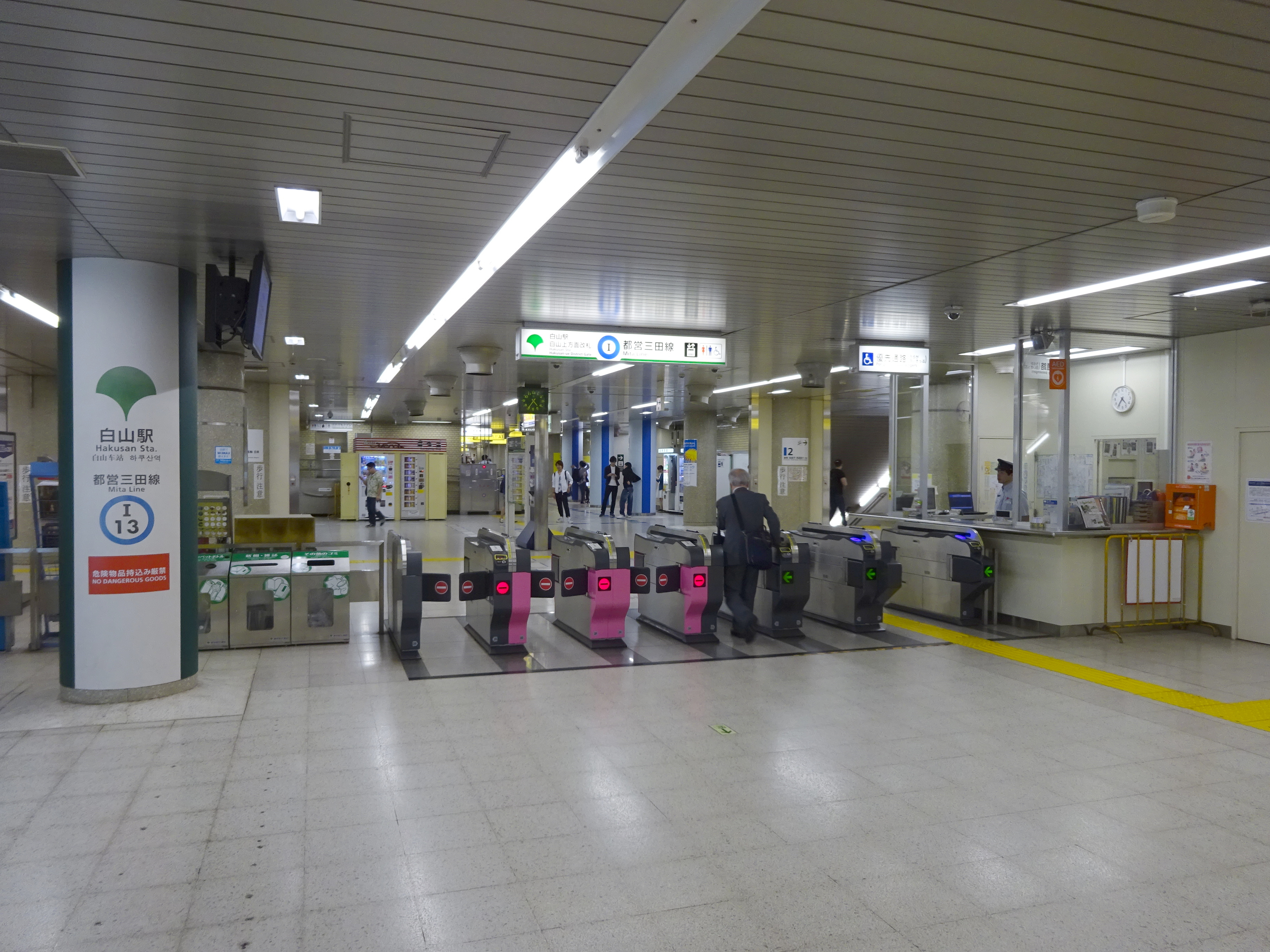 The Hakusan-Ue District exit ticket barriers at Hakusan Station in Tokyo